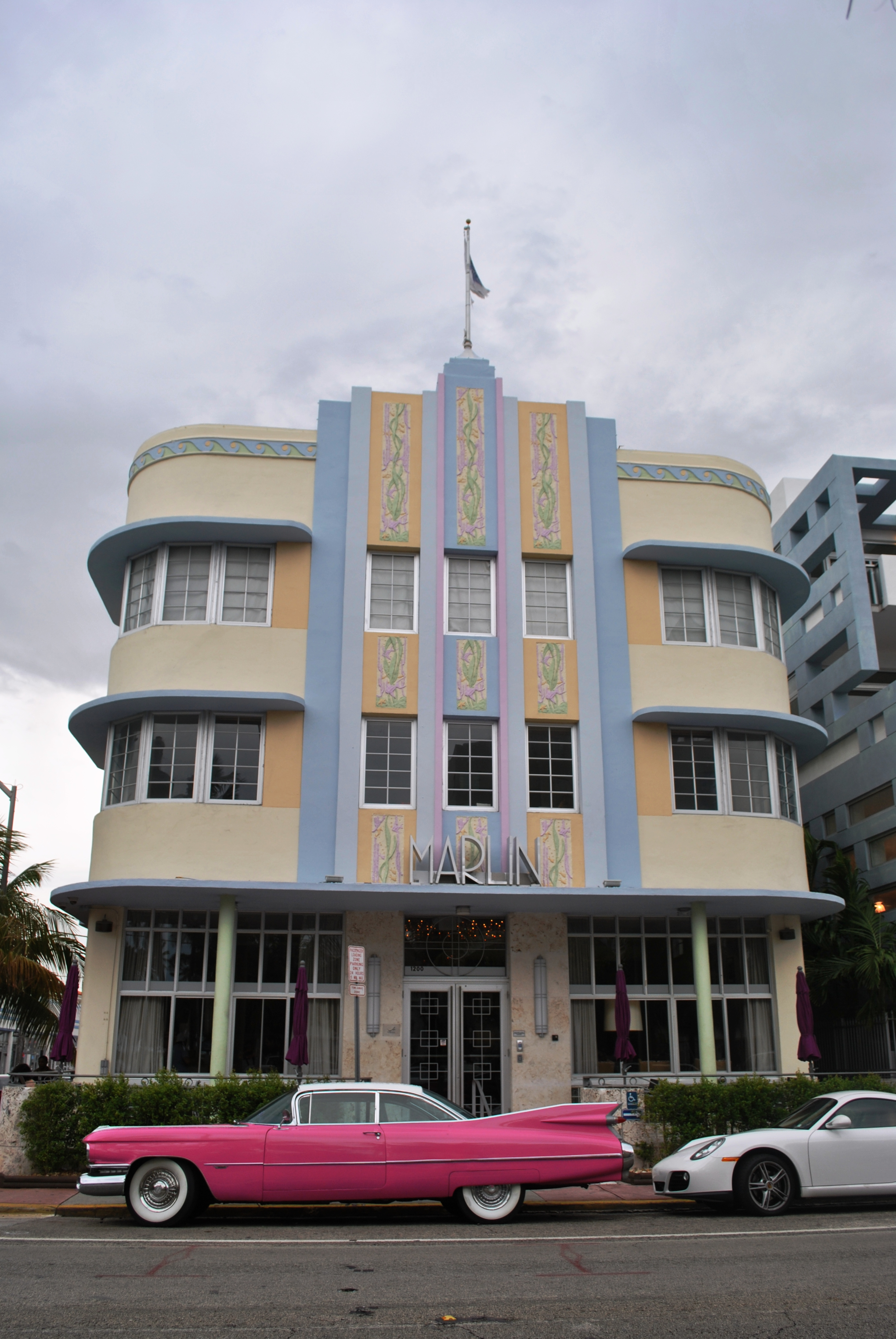 Image originally published in Queer Places: Retracing the Steps of LGBTQ people around the World Authored by Elisa Rolle